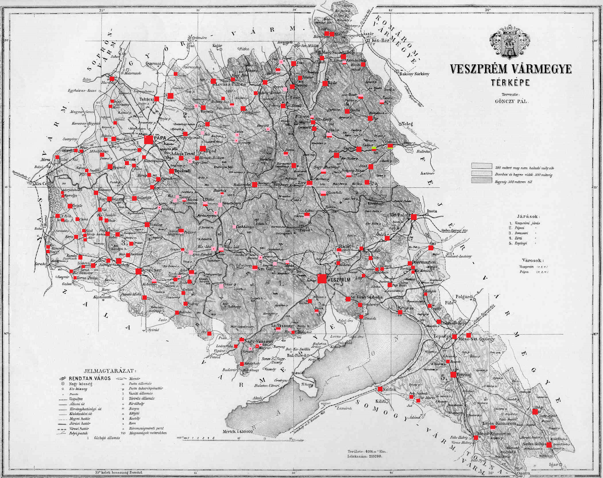 Ethnographic map of the county (with data of the 1910 census). Key: red - Hungarians; pink - Germans; light green - Slovaks. Coloured dots in plain rectangles imply the presence of smaller minority populations (generally more than 100 people or 10%). Multicoloured rectangles imply cities and villages with multi-ethnic populations with the order of the stripes following the ethnic composition of the settlement.